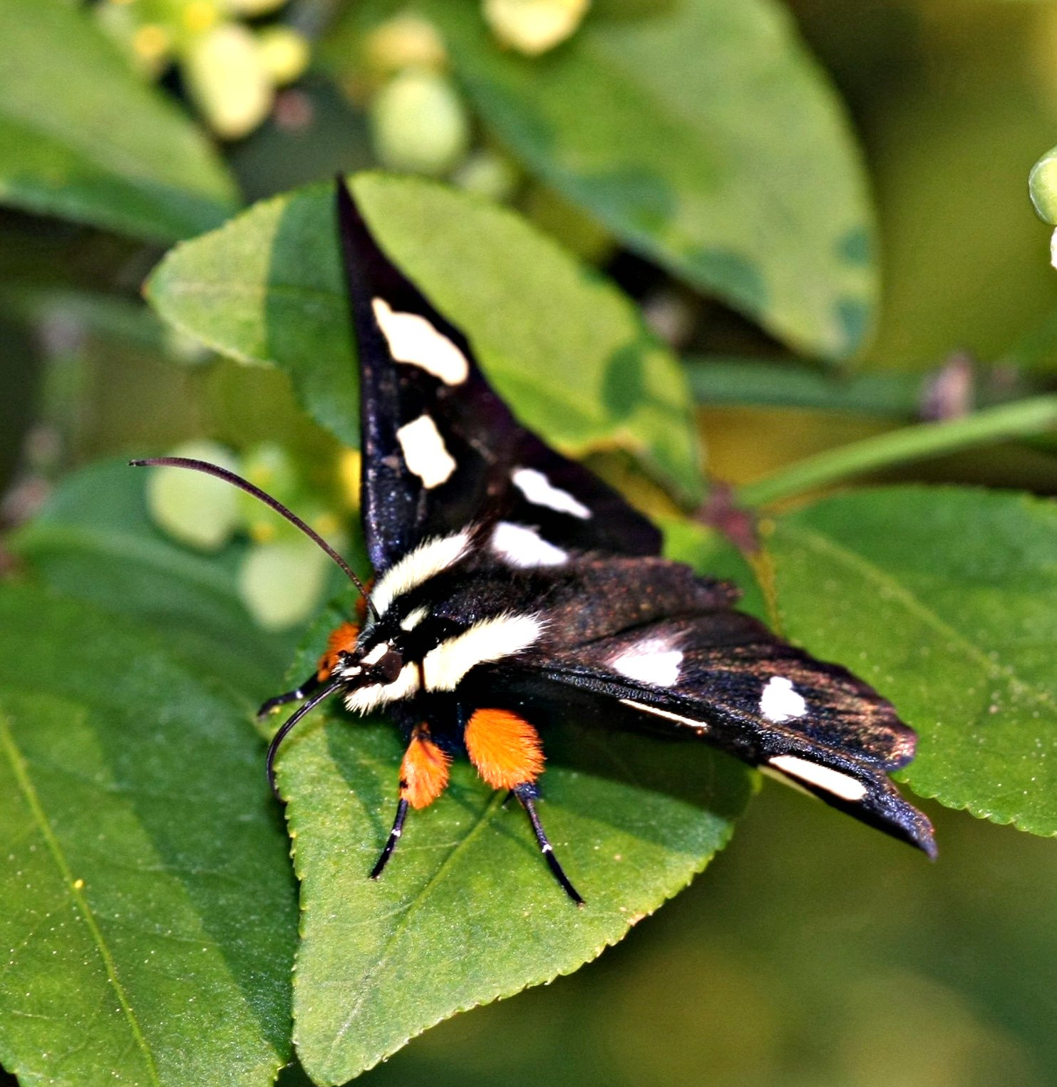 I was looking through the fire bush looking to see a new bug when this beautiful moth landed right before me! Thanks to Carolinensis for the ID.